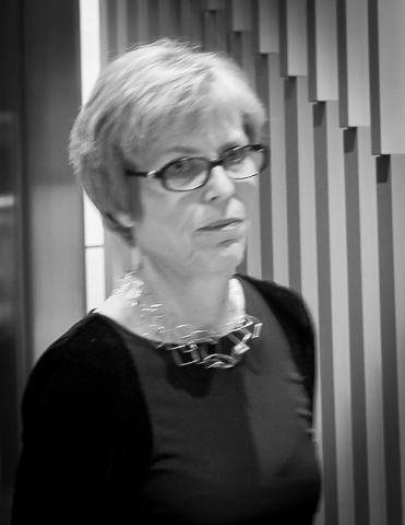 Hanne Refsholt at Governor Øystein Olsen's annual address in February 2016